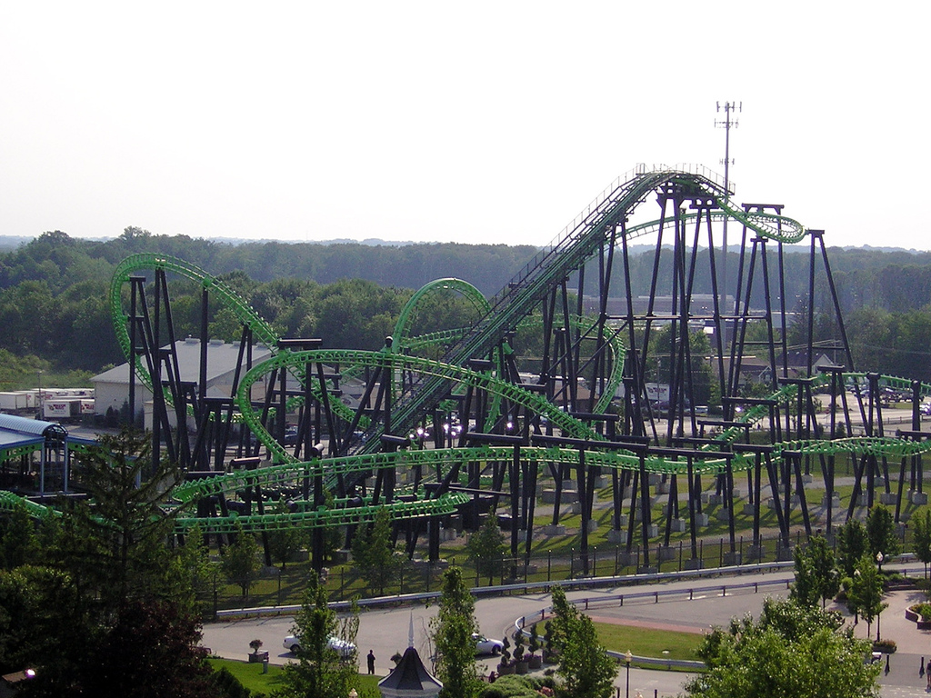 X-Flight at Geauga Lake & Wildwater Kingdom.